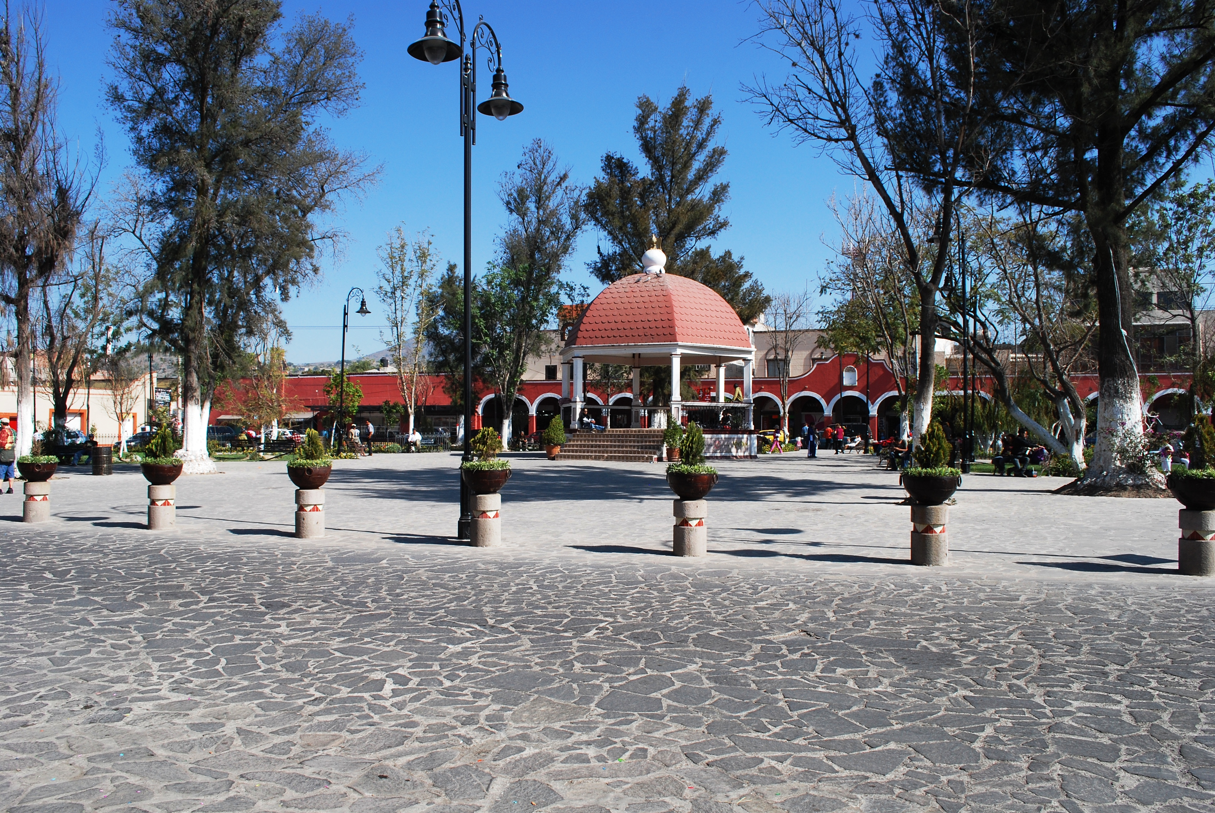 Main plaza of the town of Teotihucan, Mexico State